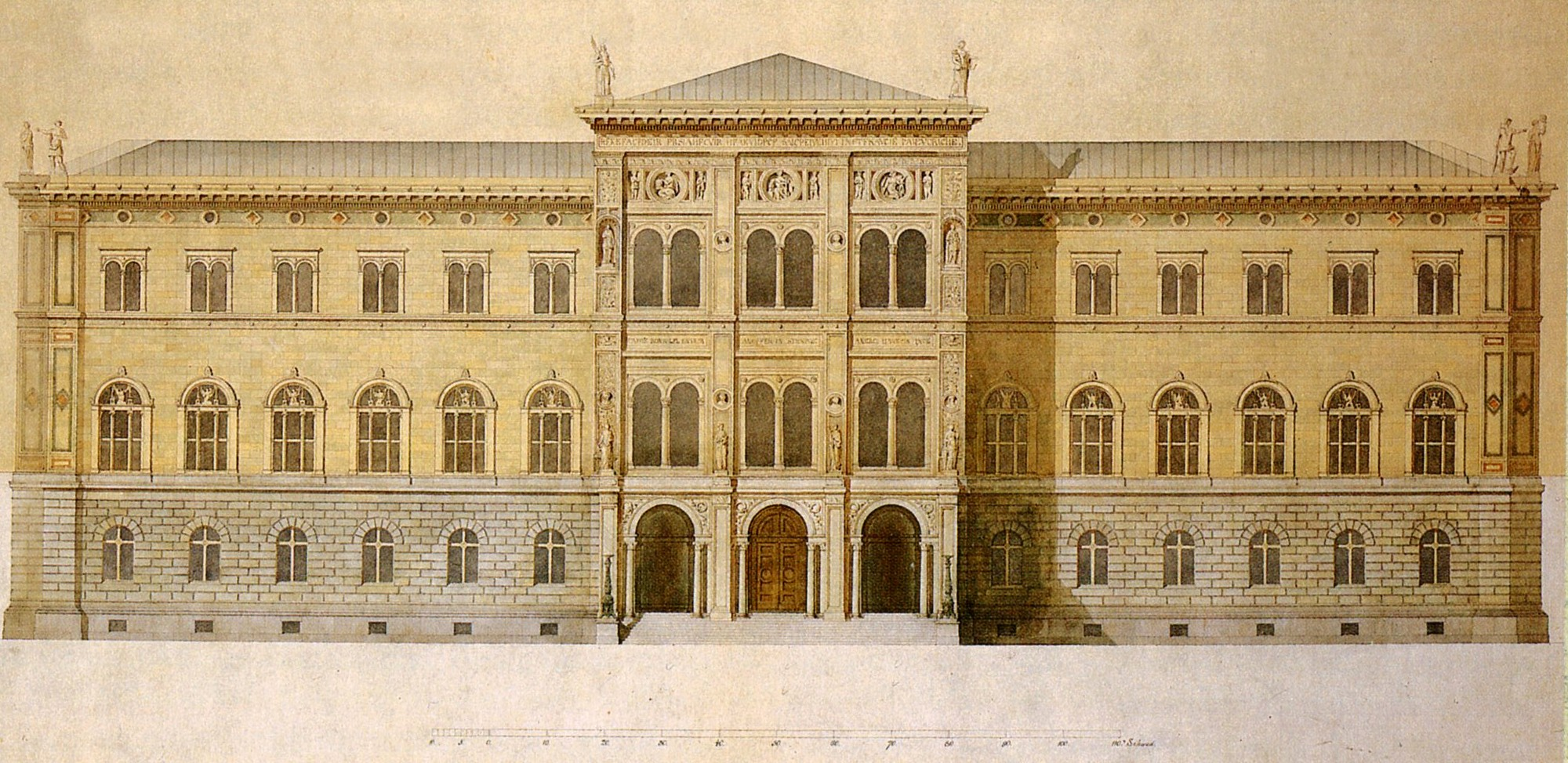 Nationalmuseum Stockholm, facade